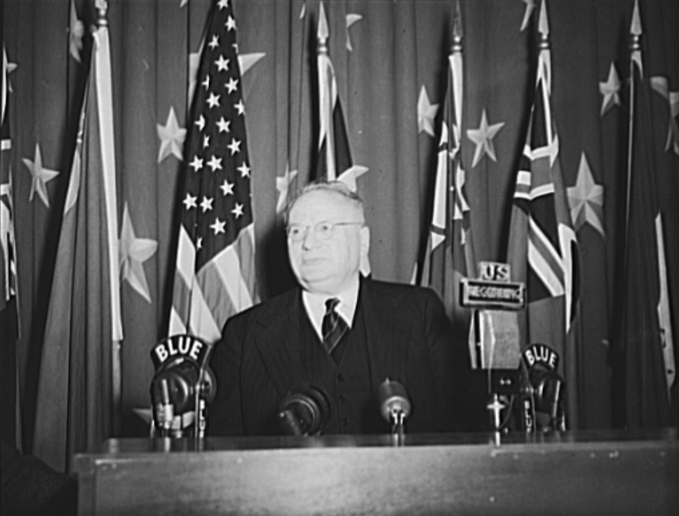 Title: Maxim Litvinov, Russian ambassador to the United States, addresses luncheon in observance of second anniversary of lend-lease at the Hotel Statler, Washington, D.C. Medium: 1 negative : safety ; 4 x 5 inches or smaller. Reproduction Number: LC-USE6-D-010077 (b&w film neg.) Call Number: LC-USE6- D-010077 [P&P] Repository: Library of Congress Prints & Photographs Division Washington, DC 20540